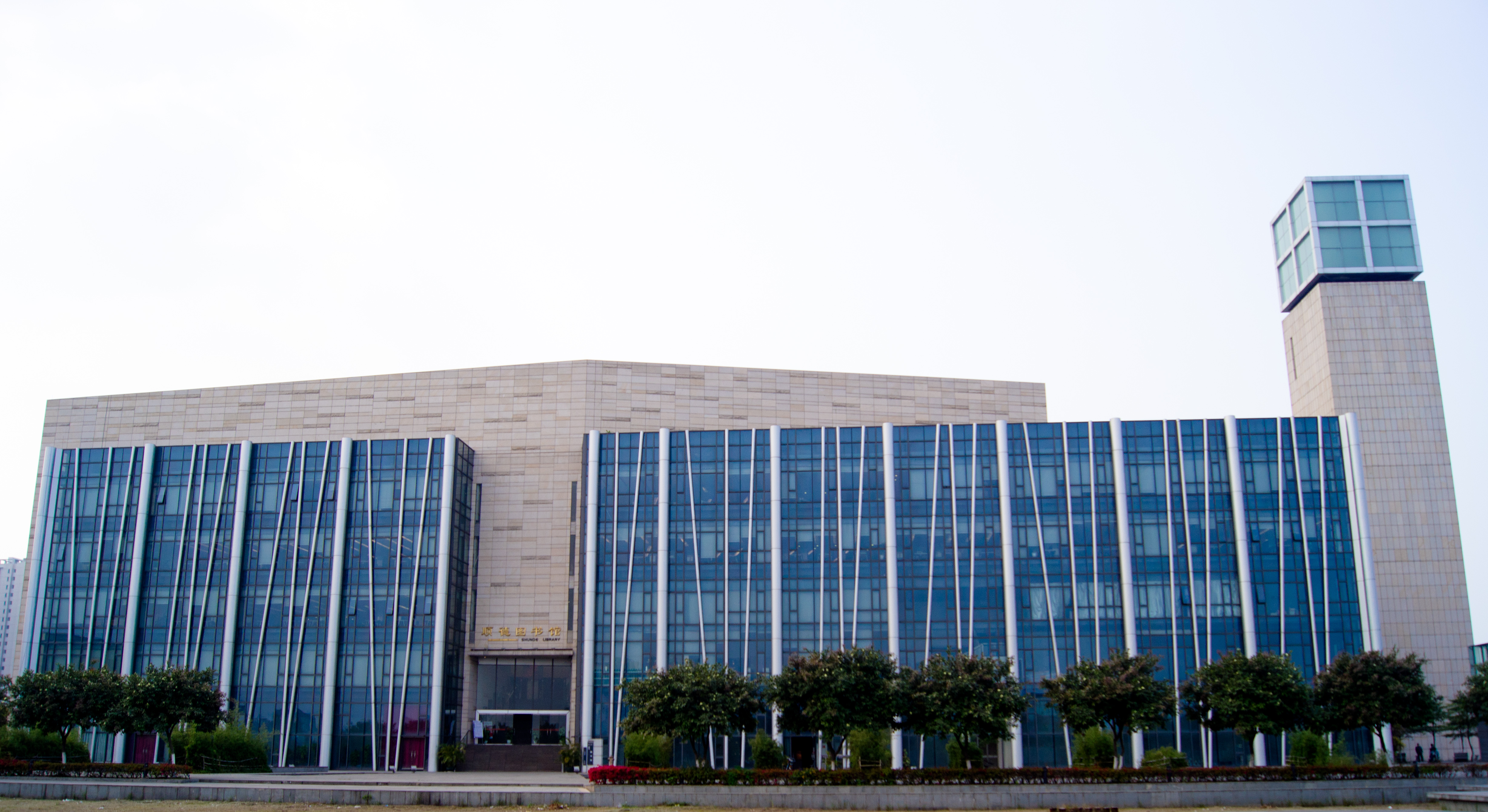 Shunde Library